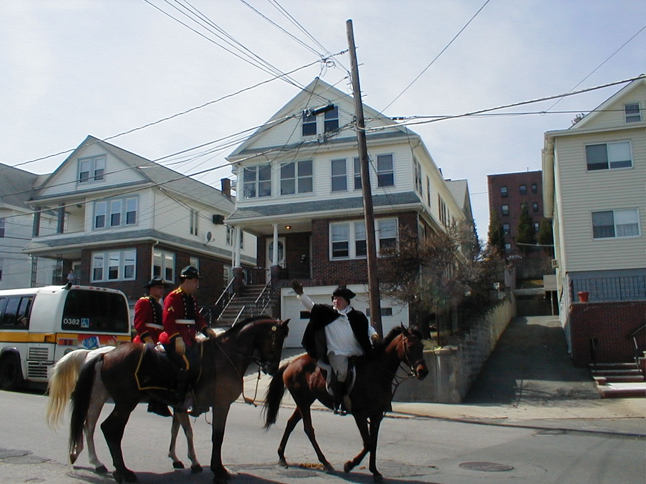 A Boston-area tradition, the re-enactment of the Midnight Ride of Paul Revere occurs each Patriots' Day in April. This is on Main Street at the Somerville-Medford city line.